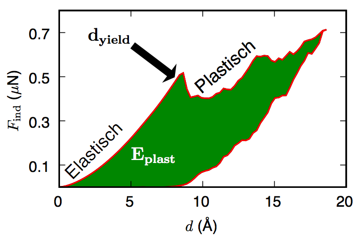 Indentation Force-Depth Curve